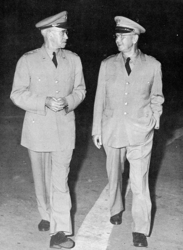 General Omar Bradley, Chairman, Joint Chiefs of Staff, and Lt. General Henry S. Aurand, Commander, U.S. Army, Pacific (on hand to greet President Harry S. Truman upon his return from Wake Island where he met with General MacArthur) stroll about Hickam Air Force Base, Hawaii. (Same as 98-1166) From: The Album - A Memento of the Visit of the President of the United States - Pearl Harbor, Hawaii, 13 October to 16 October, 1950.